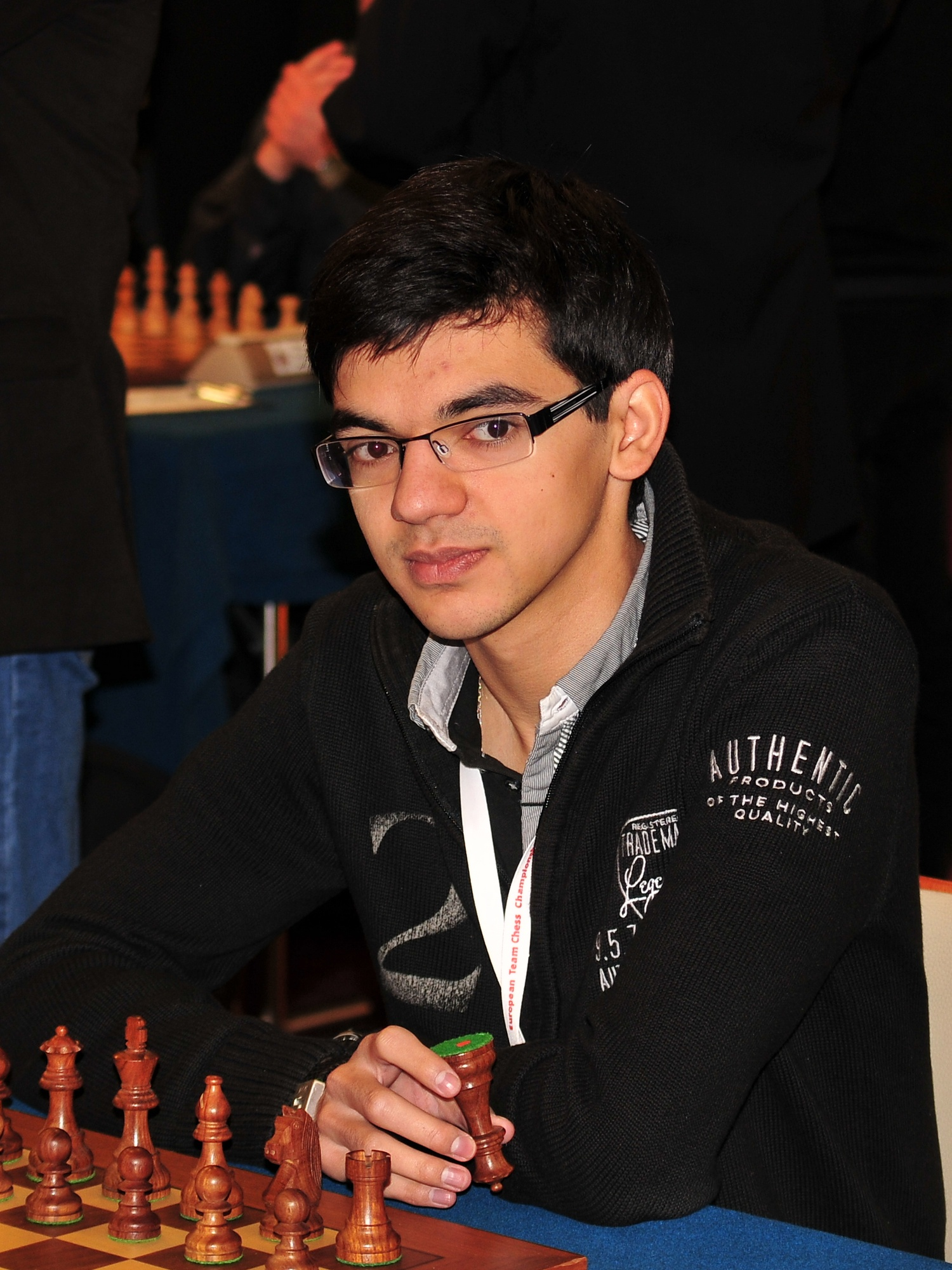 GM Anish Giri, European Chess Team Championship Warsaw 2013